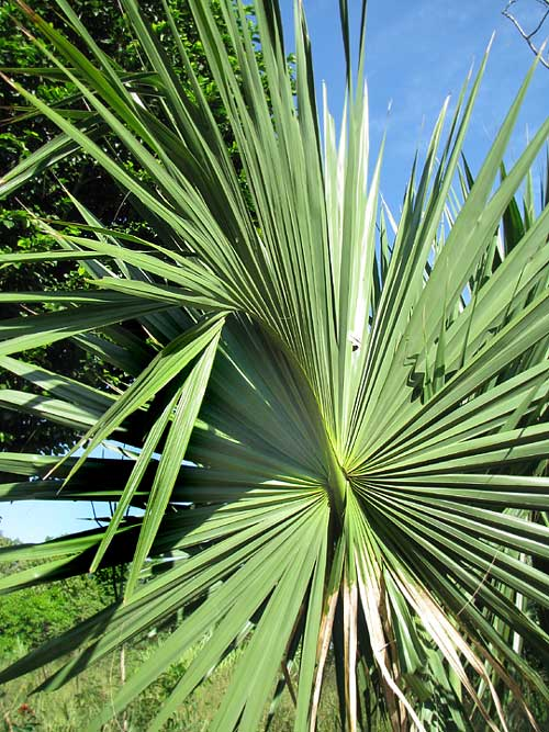 A closeup showing the palm's costapalmate fronds, which are like a transition phase between fan palms and feather-leaved palms. The complete palm